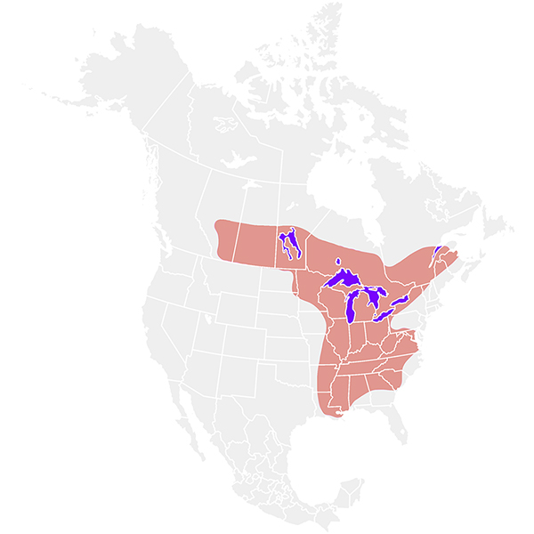 James Scott - Distribution of blastomycosis in North America based on the map given by Kwon-Chung and Bennett[1], with modifications made according to case reports from a series of additional sources.[2][3][4][5][6][7][8] The base map used was contributed by NuclearVacuum|: File:BlankMap-North America-Subdivisions.svg